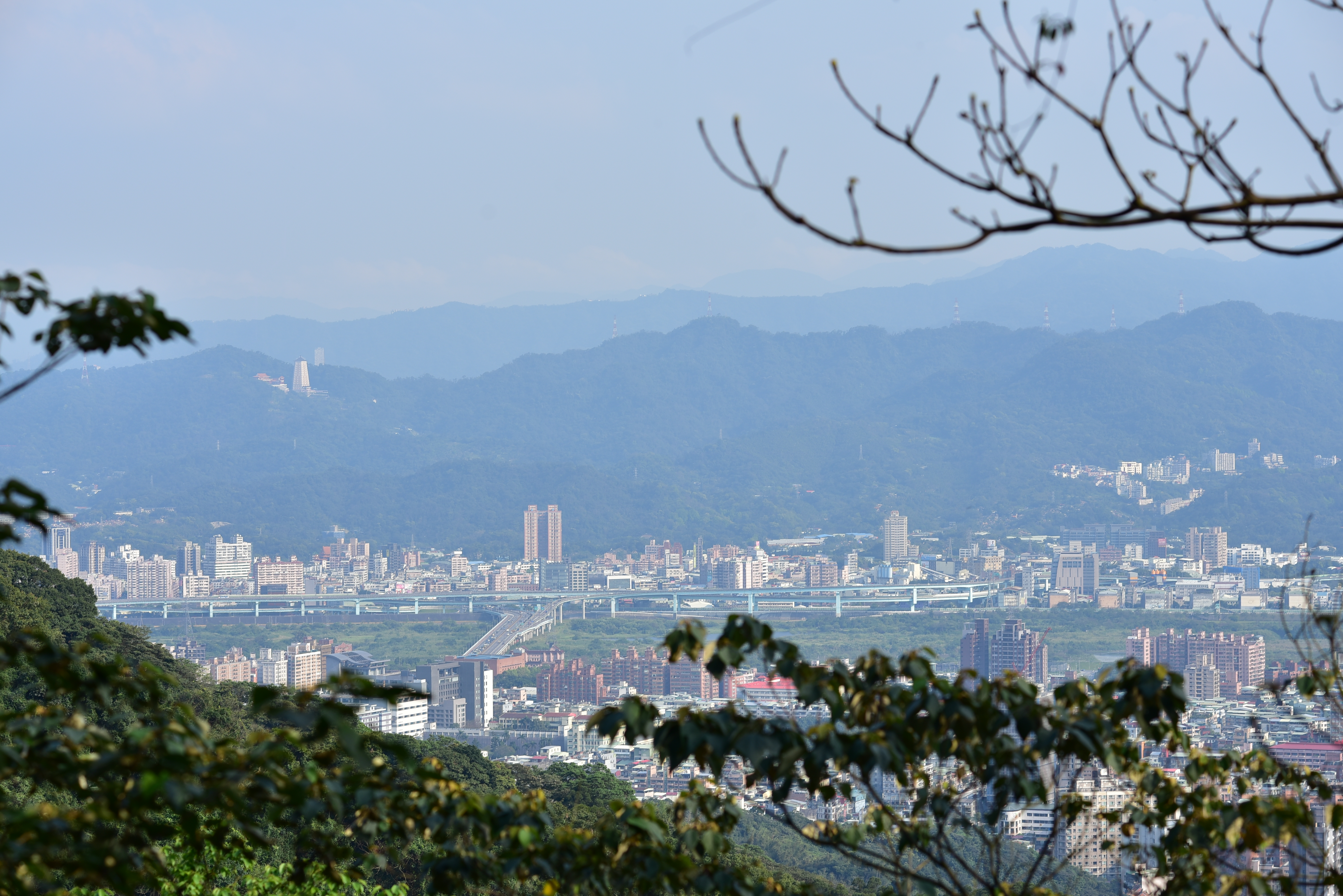 中文（台灣）: CHENGLIN bridge(New Taipei)2018 城林橋& 臺65線